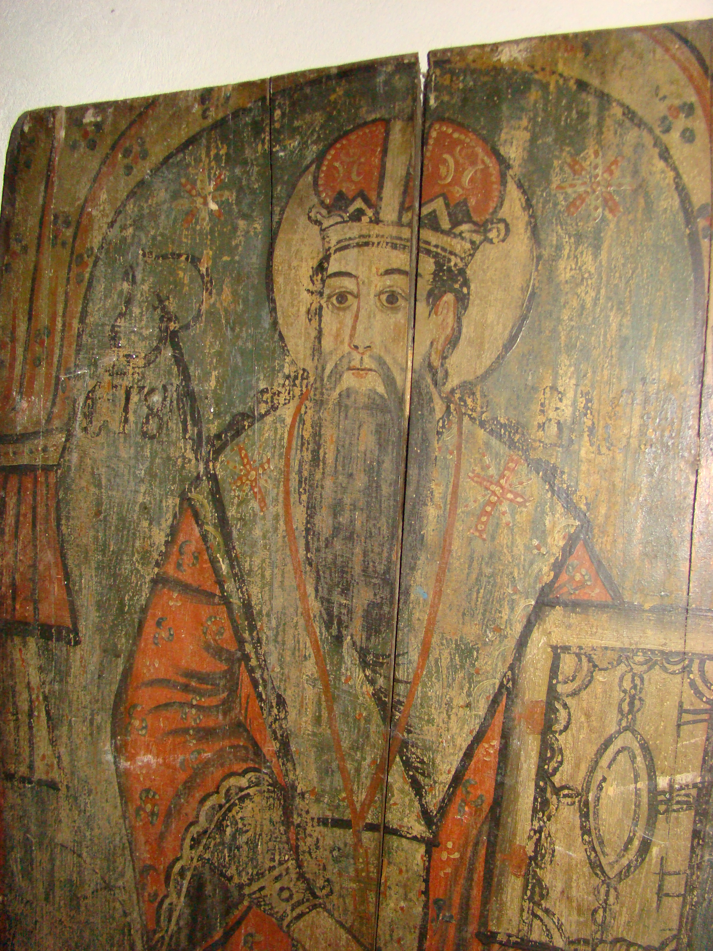 the Izbuc Orthodox monastery near Călugări village, Codru-Moma Mountains, Romania